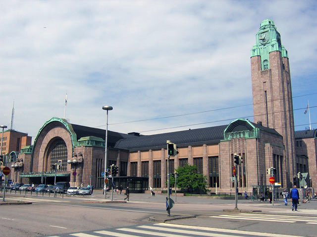 The Railway station of Helsinki (on June 04, 2005)